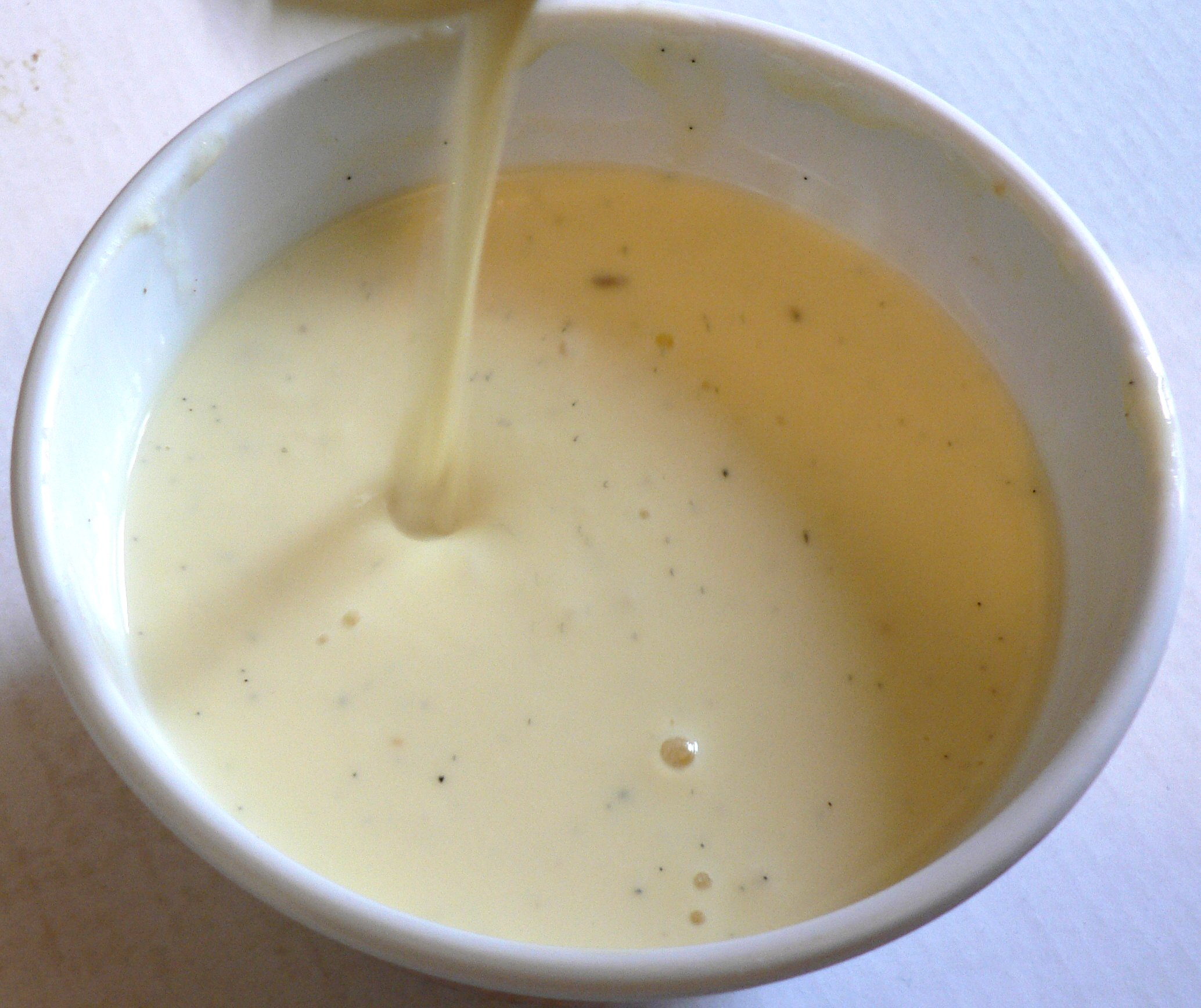 Crème anglaise made from milk, eggs, sugar and vanilla (in beans)